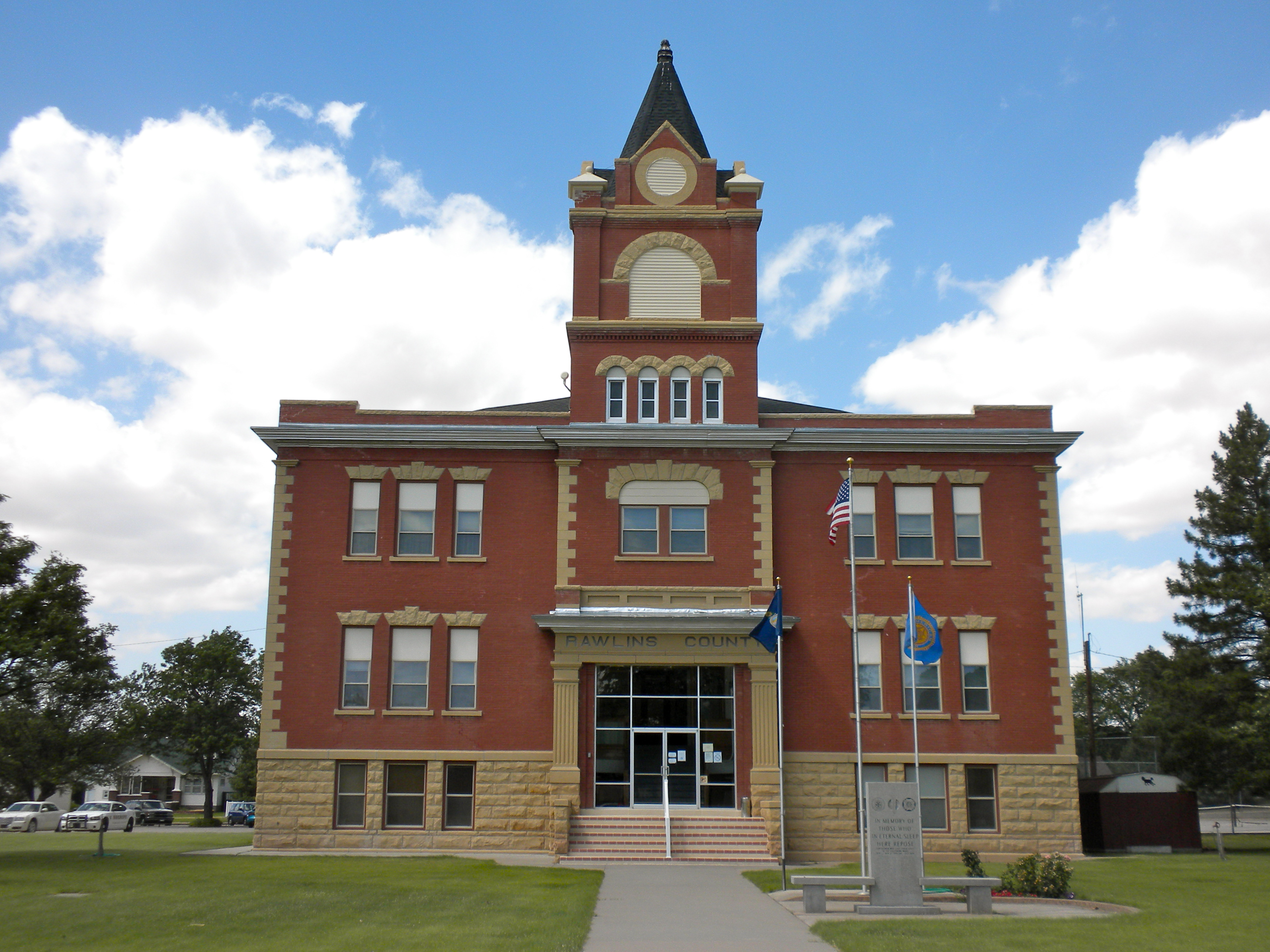 Rawlins County Courthouse in Atwood, Kansas. Surprisingly, not on the NRHP